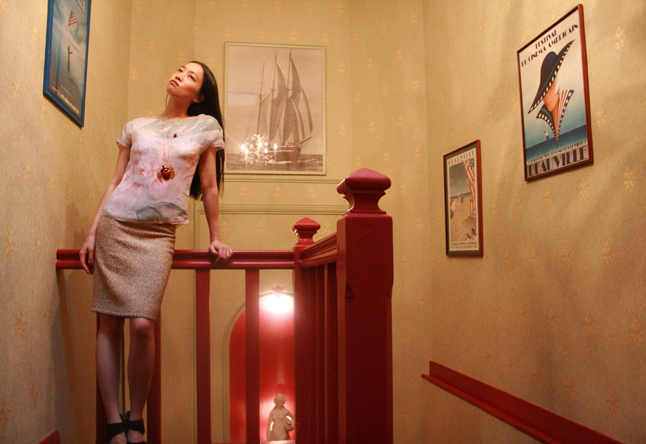 October 2012, Deauville, Yi Zhou at Women's Forum